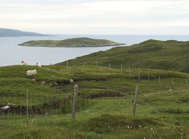 Sheep grazing near Cliasmaol Looking down to the sea at Caolas Shòdhaigh and the island of Sodhaigh Mòr.